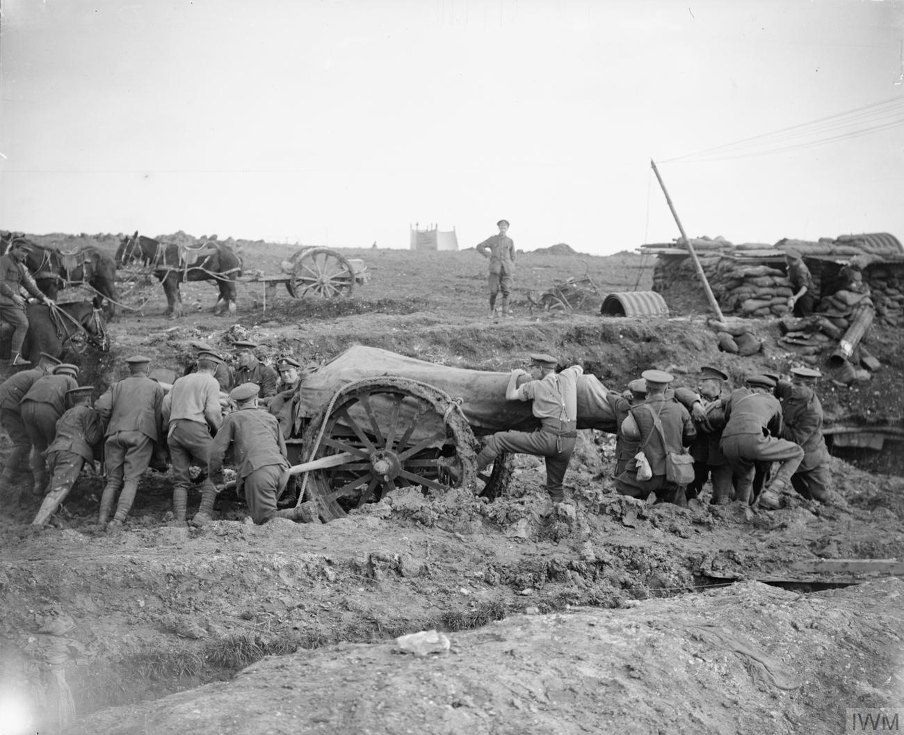 THE BATTLE OF THE SOMME 1 JULY - 18 NOVEMBER 1916 Battle of Le Transloy 1-18 October 1916: Swinging a 60-pounder Mk I gun round to haul up into position at Bazentin-le-Petit. Comment : The gun is on a Mk II carriage with 5 ft steel tractor wheels.